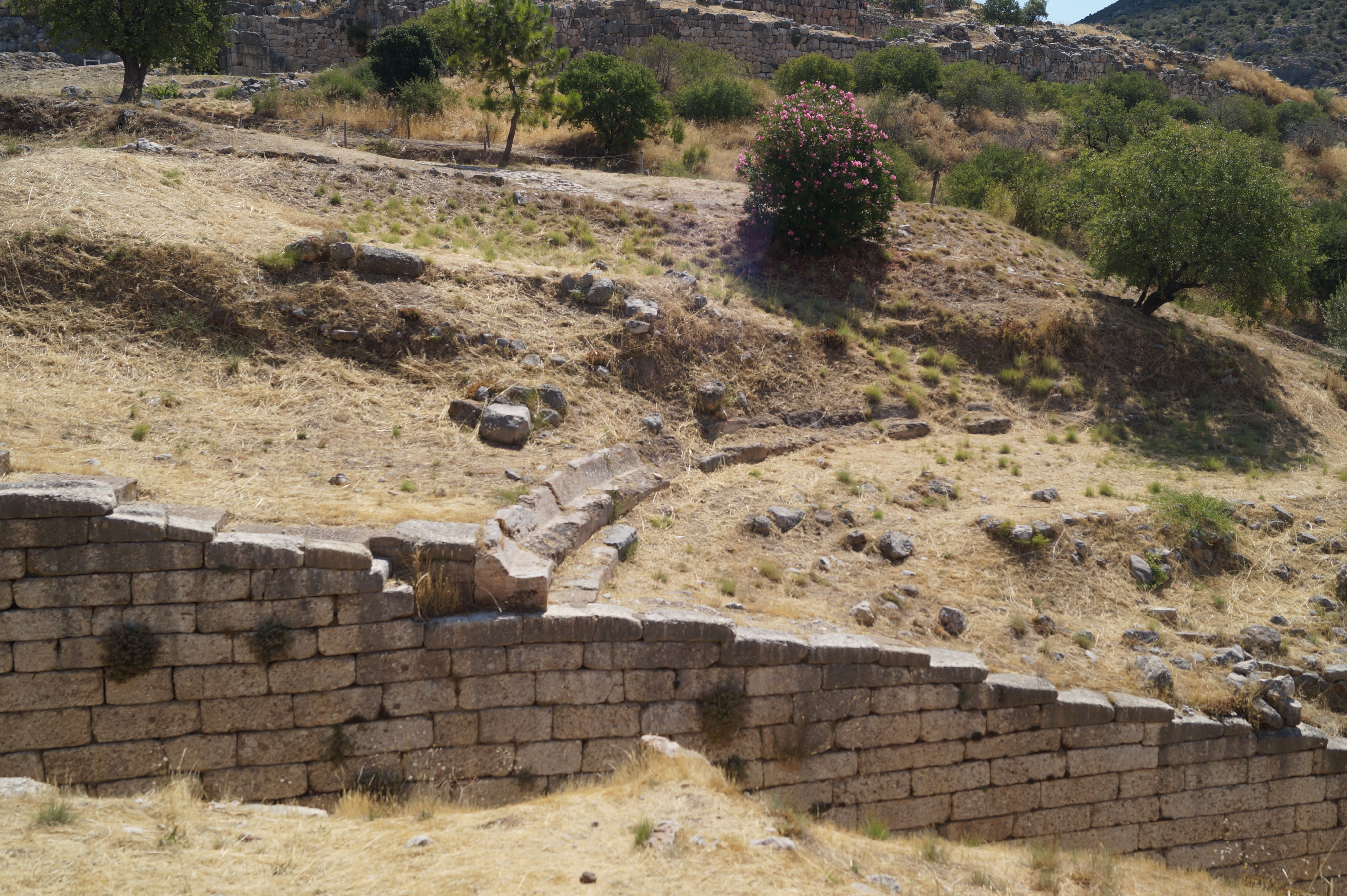 Mycenae: The lowest tier of the hellenistic theatre of Mycenae above the dromos of the tomb of Clytemnestra.